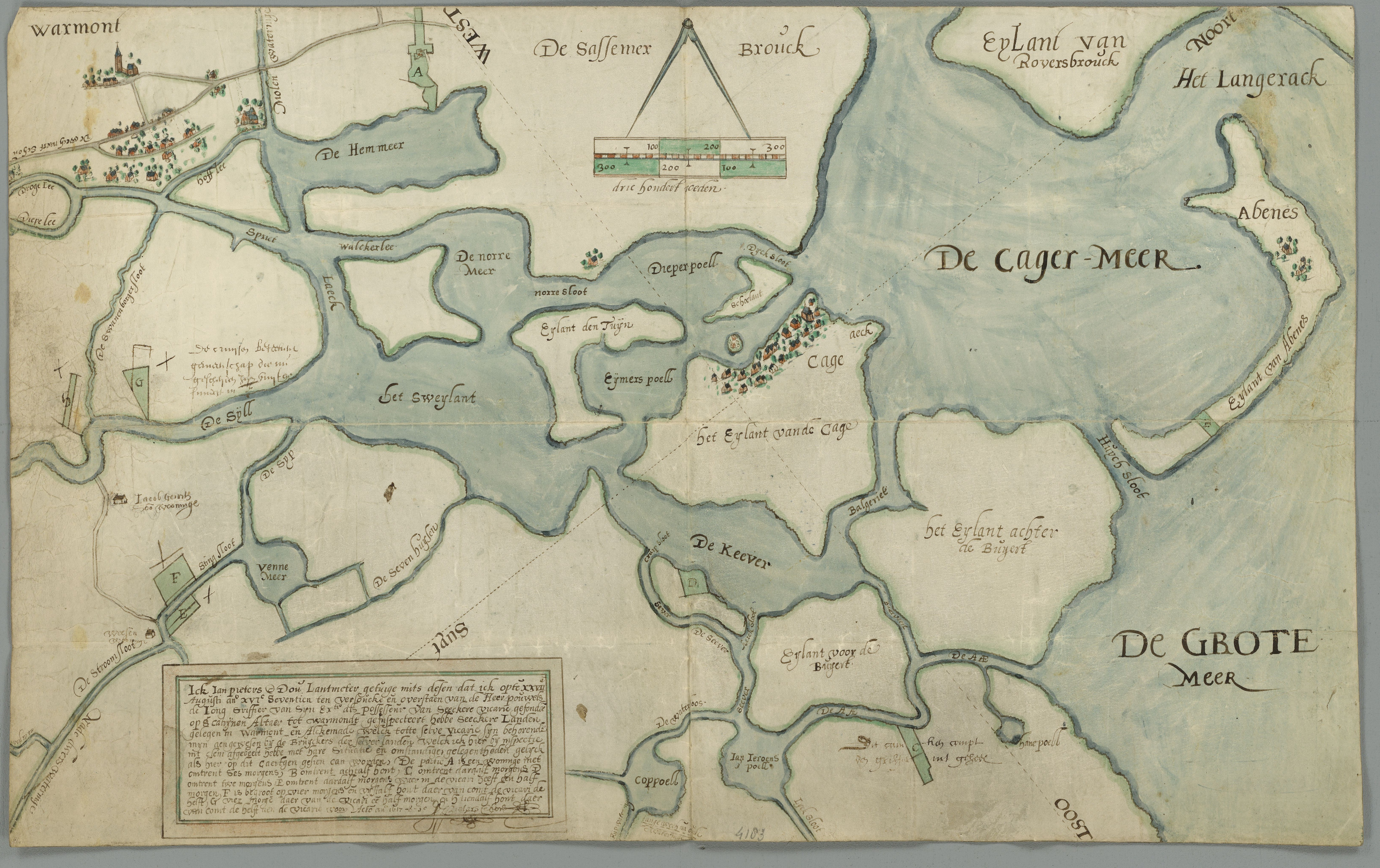 Map of 1617 of the Kaag Lakes (Kagerplassen) near Warmond (Province of South Holland, Netherlands).